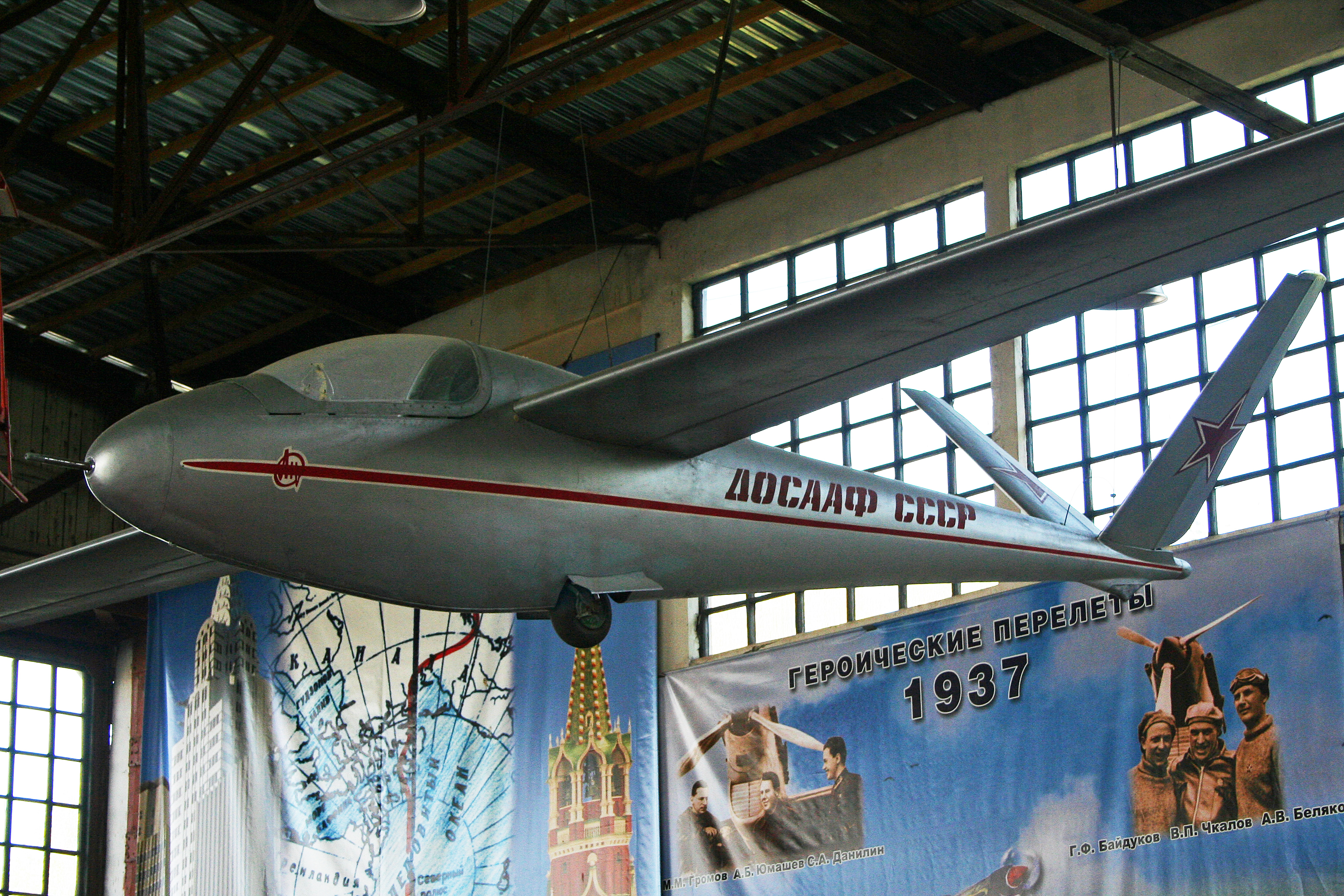 The A-15 was used to set many world records including a world goal distance record of 444miles in June 1960. Some 350 were built. This example is on display suspended in the original display hangar at the Russian Air Force Museum. Monino, Russia. 13-8-2012